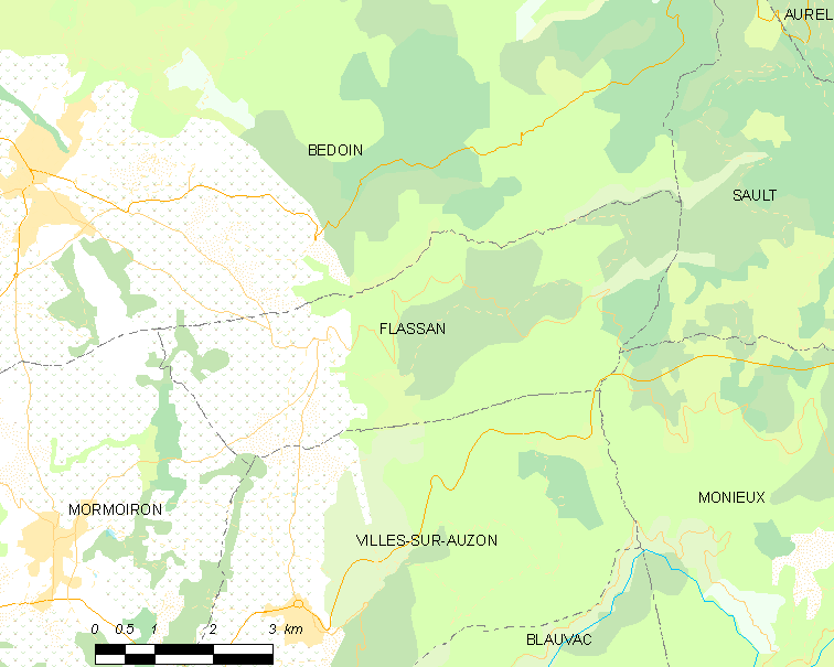 Map of French municipality Flassan